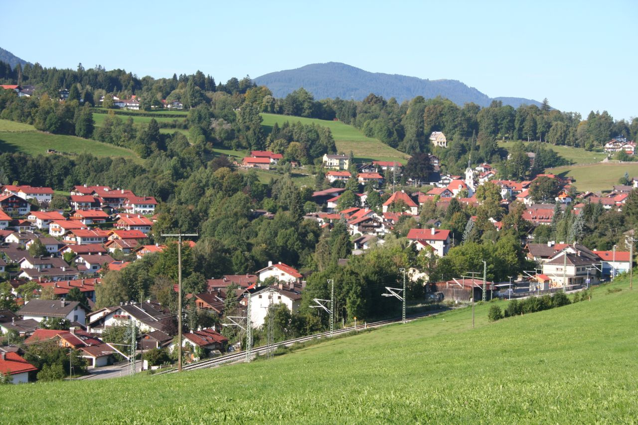 Bad Kohgrub from Steigrainer, to the northeast